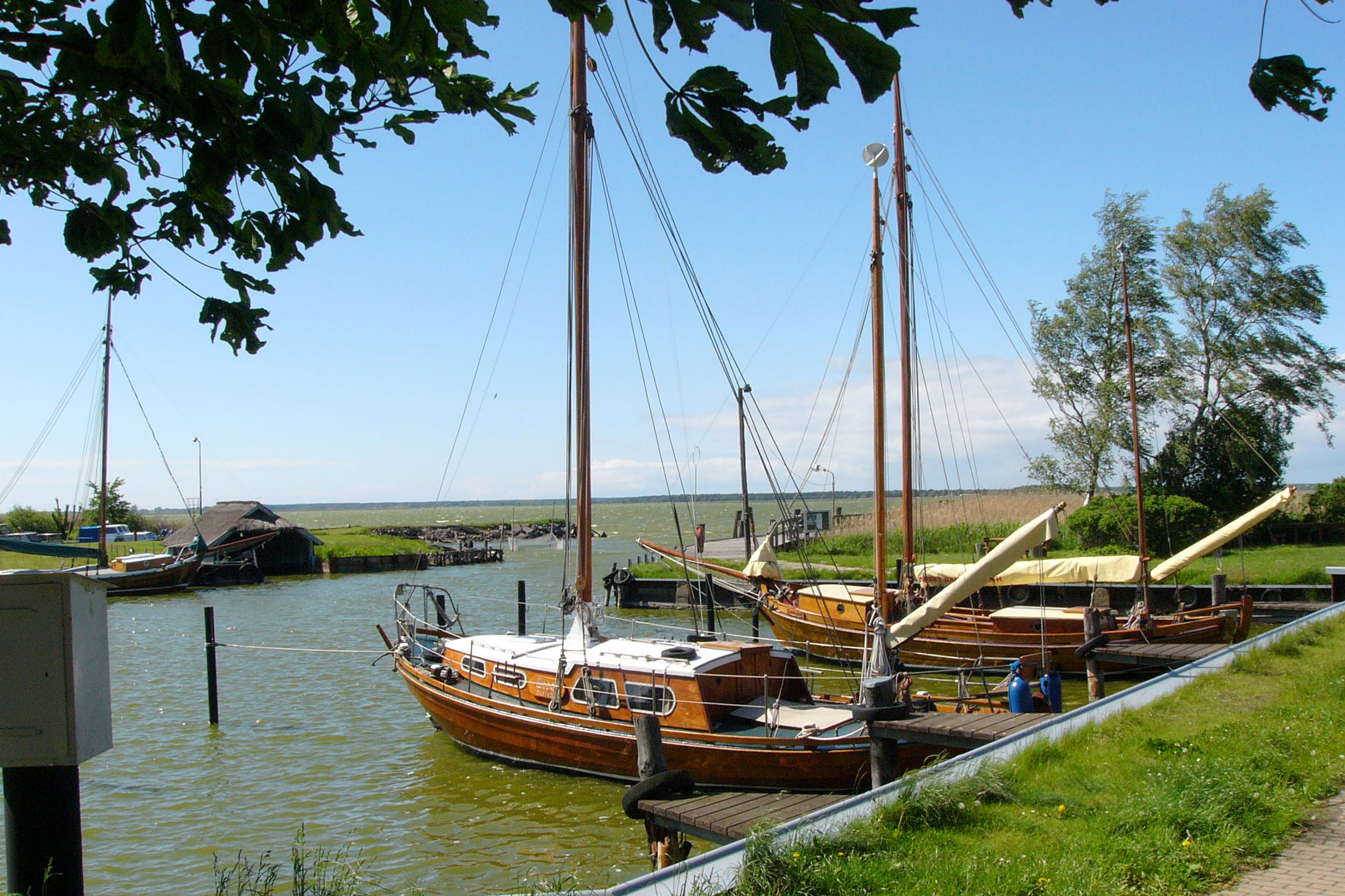 Old harbor of Bodstedt, Mecklenburg-Western Pomerania